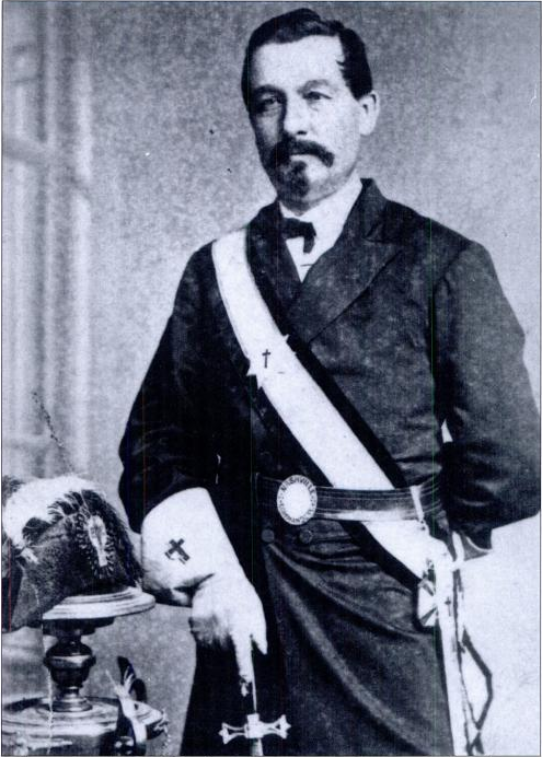 German-American photographer Carl Giers (1828–1877), in Masonic regalia